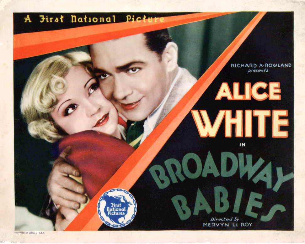 Lobby card from the American musical drama film Broadway Babies (1929) with Alice White and Charles Delaney.